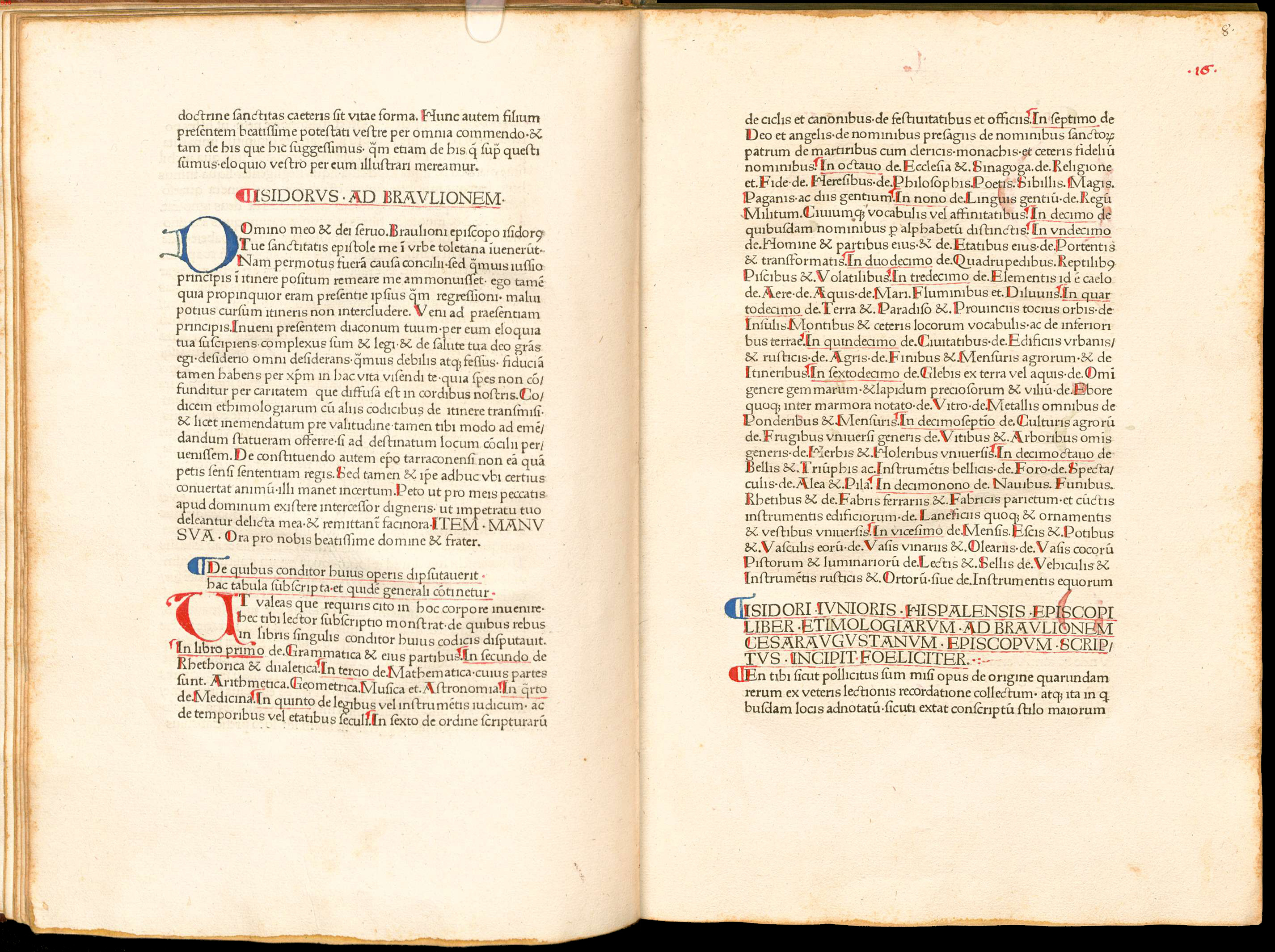 Spread from the "Meditatione de Vita Christi" printed by Günther Zainer in 1468. Copy of the Bayerische Staatsbibliothek.